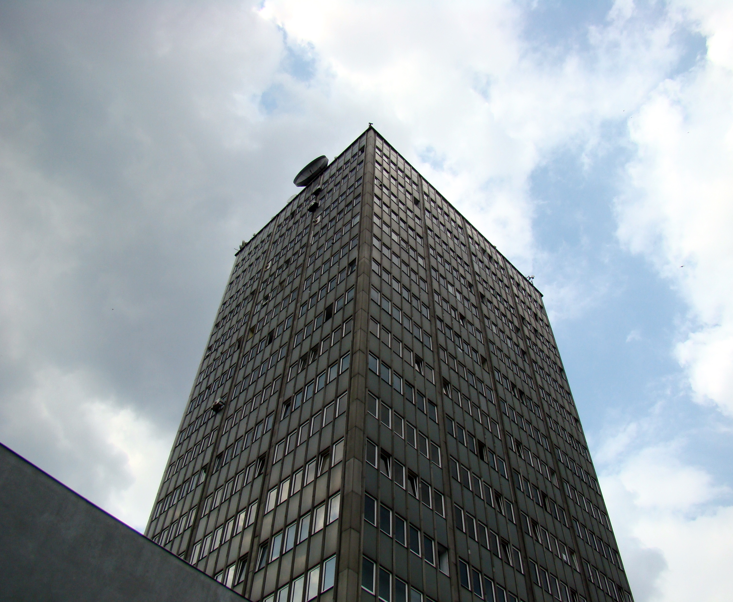 PRITV skyscraper, Szczecin, Poland